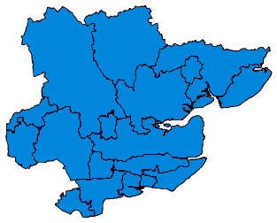 Essex 2017